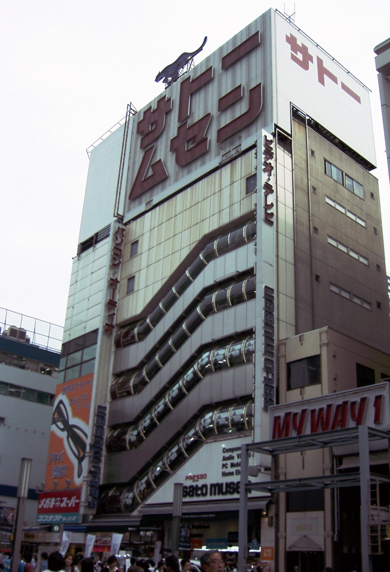 Sato Musen Akihabara Electric Shop, Akihabara, Tokyo, Japan